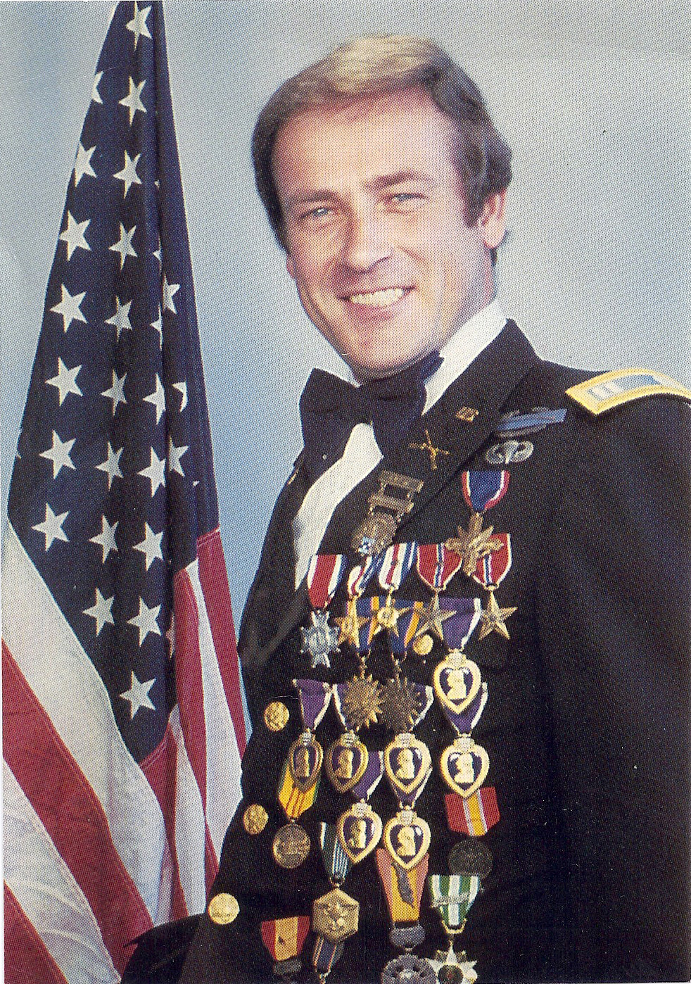 David A. Christian, decorated United States Army Vietnam War veteran, in dress uniform.